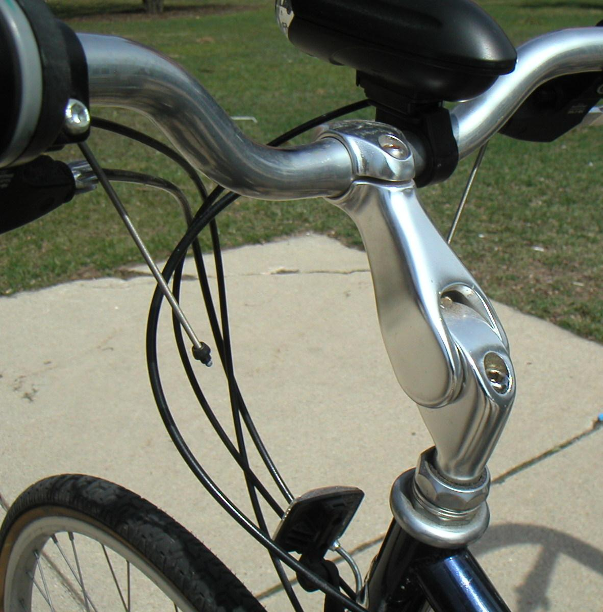 Taken by Andrew Dressel